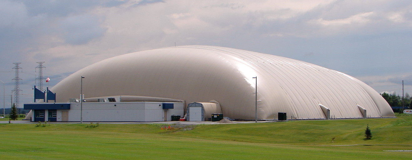 Air-supported dome used as a sports and recreation venue (location: Ottawa, Ontario, Canada)